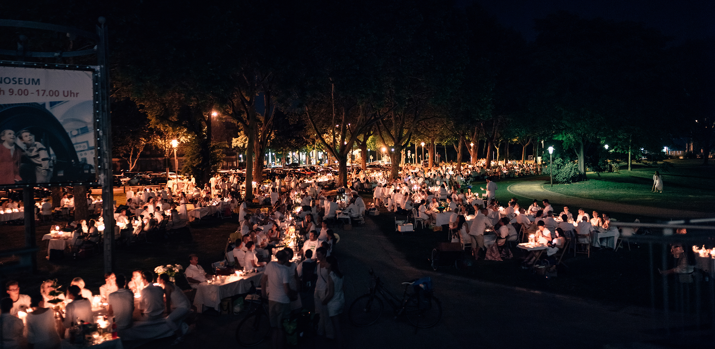 Diner en blanc 2014 in Mannheim